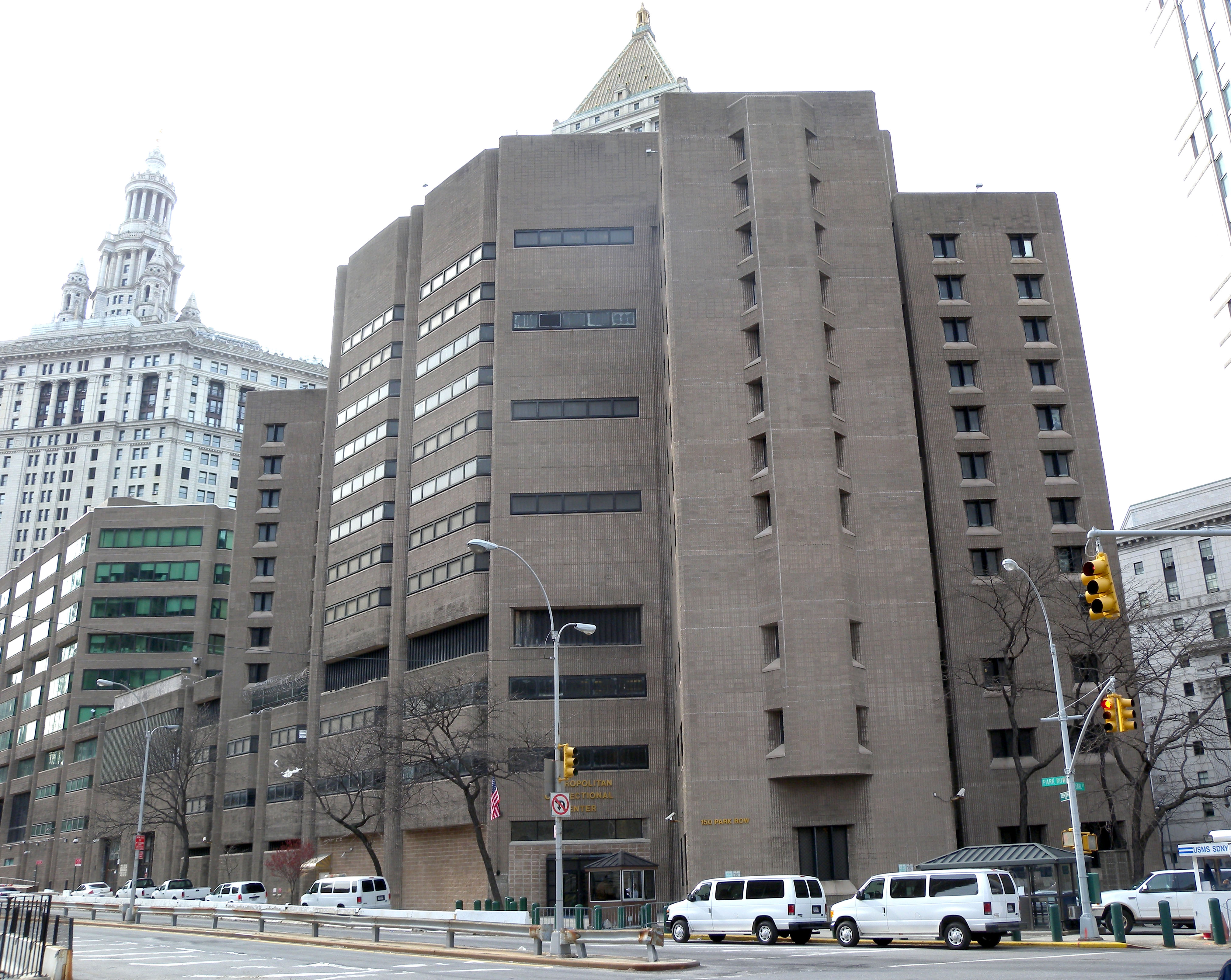 Looking west across Park Row at Metropolitan Correctional Center, New York City on a cloudy afternoon.